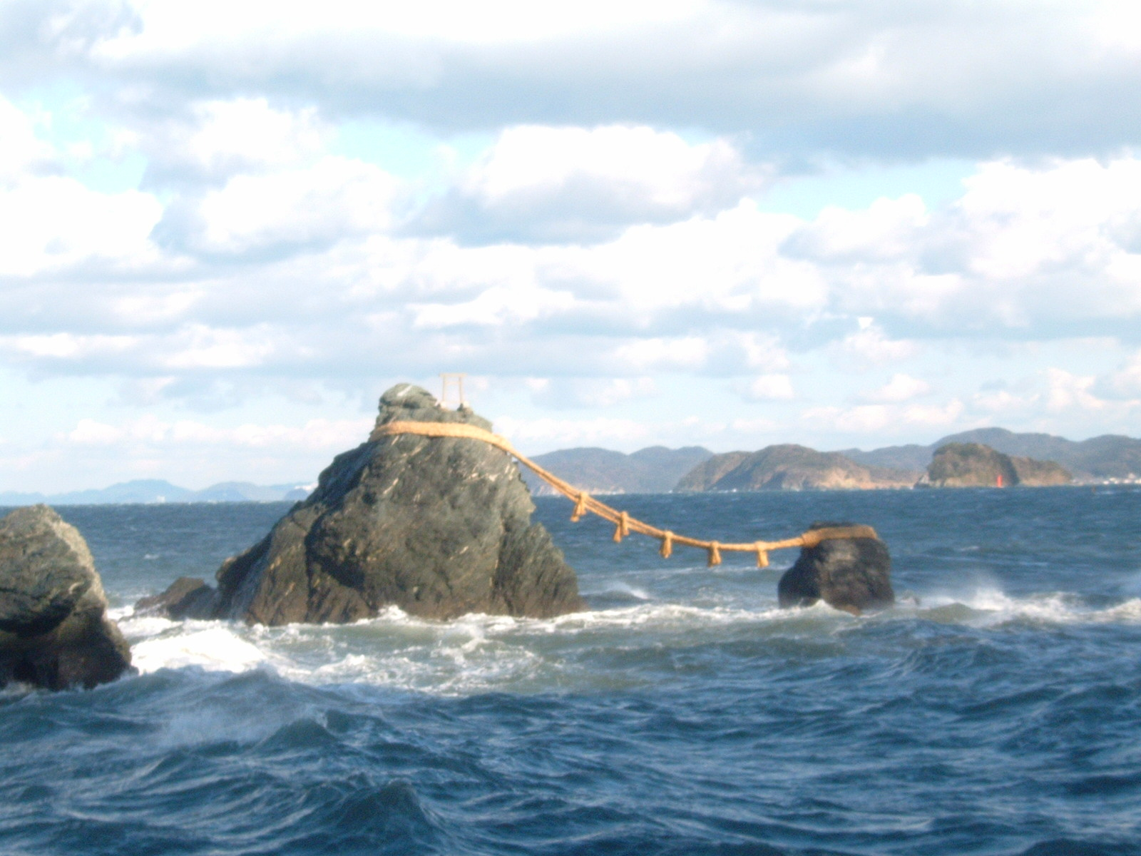 The Wedded Rocks in the town of Futami, part of Ise city, Mie prefecture, Japan.